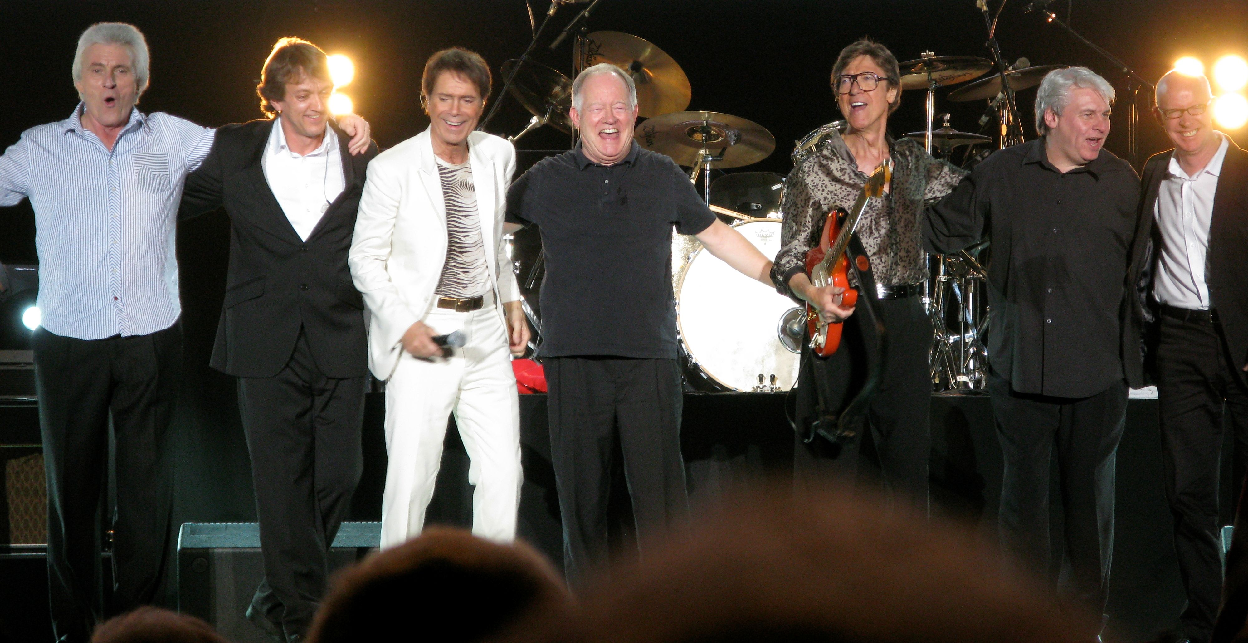 Cliff Richard and The Shadows 50th Anniversary final U.K. concert (encore) at the Wembley Arena, London, England, Great Britain